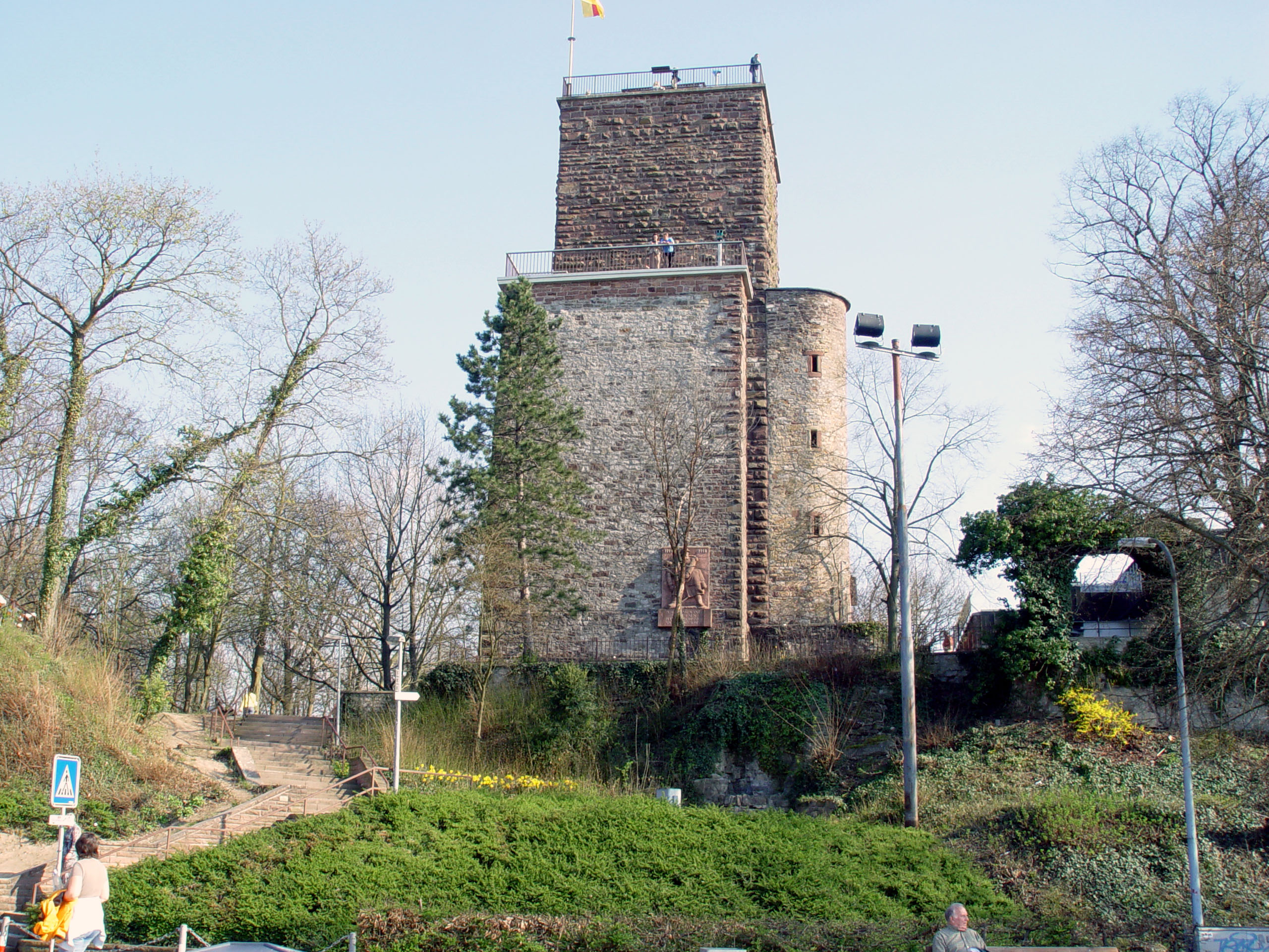 Tower on top of Mt. Turmberg in the city of Karlsruhe, in the district of Durlach. On the right front side of the tower, the paramedic's memorial can be seen.